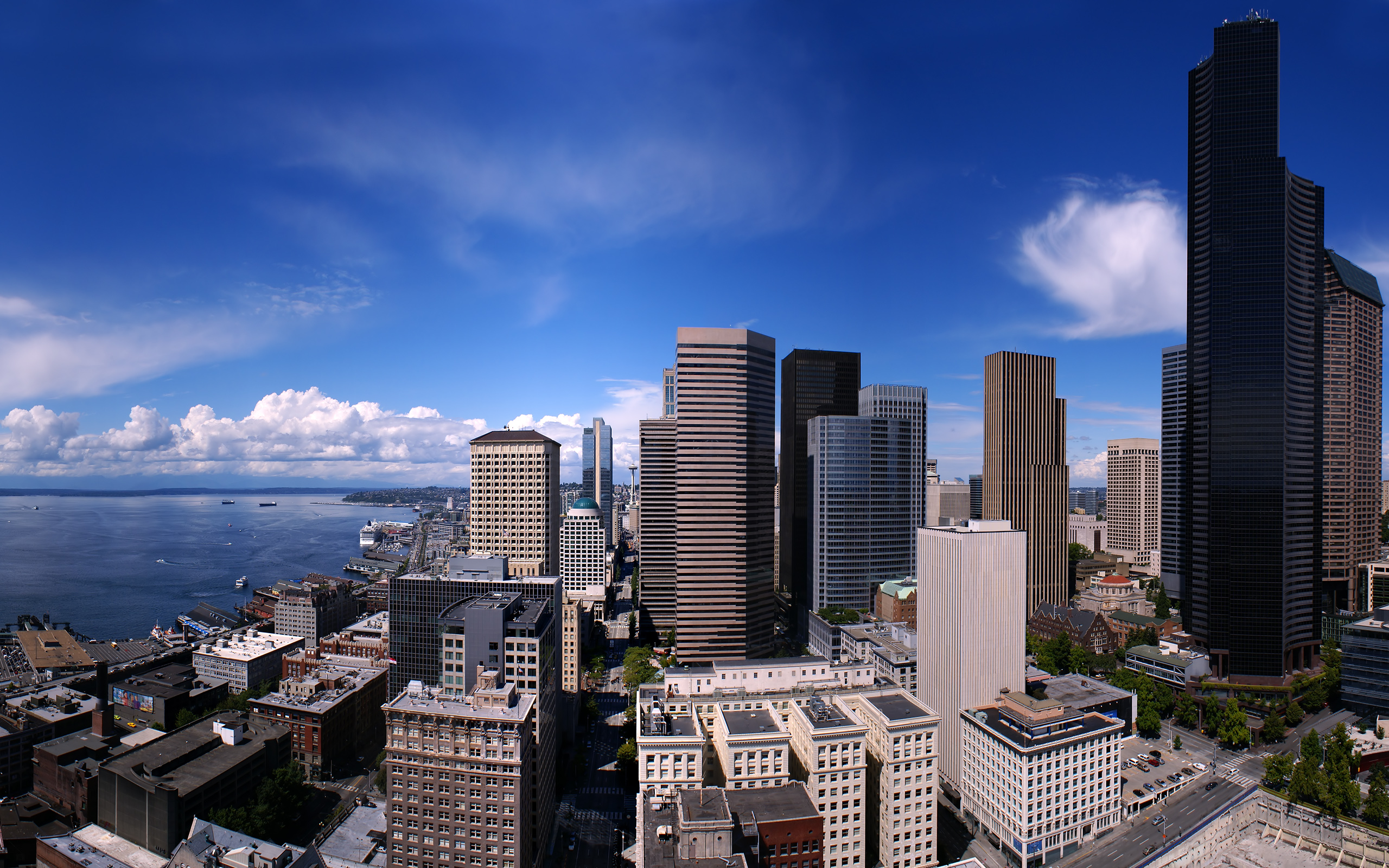 Panorama of Seattle downtown, as visible from the observation deck of Smith Tower